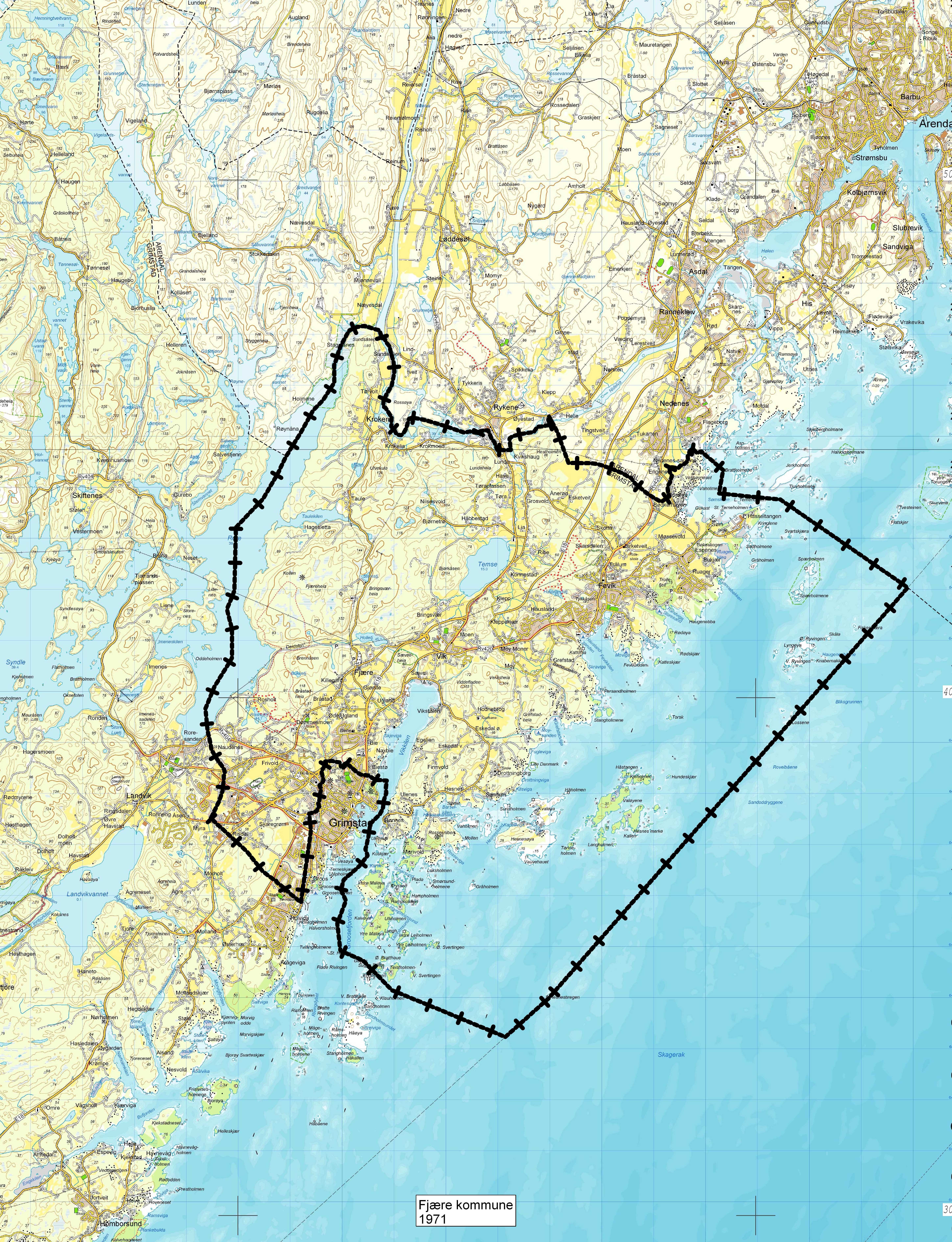 "Fjære kommune" 1971, Grimstad, Norway - Map